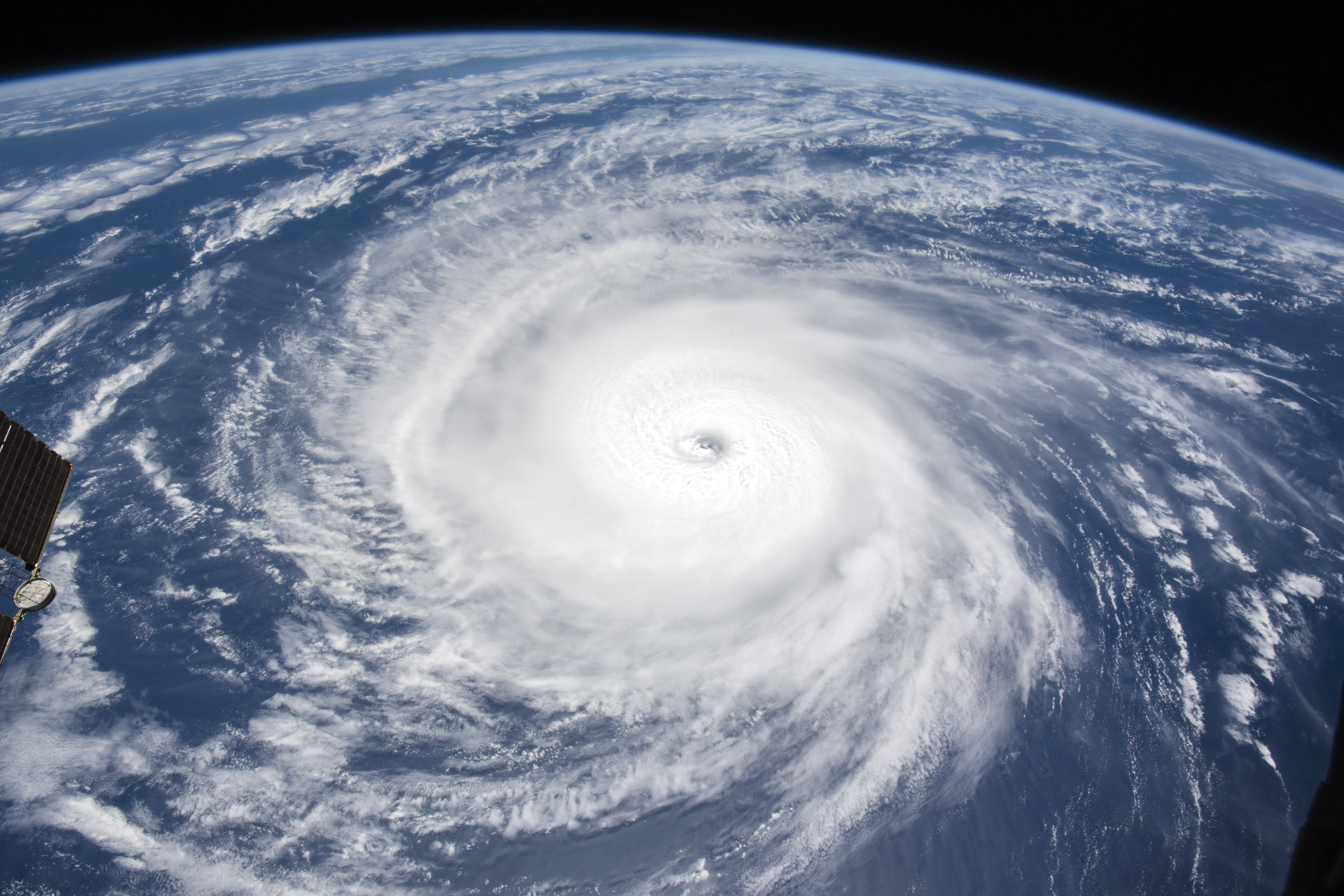 Hurricane Hector was pictured by an Expedition 56 crew member as the International Space Station orbited nearly 250 miles above the Pacific Ocean just south of the Hawaiian island chain.